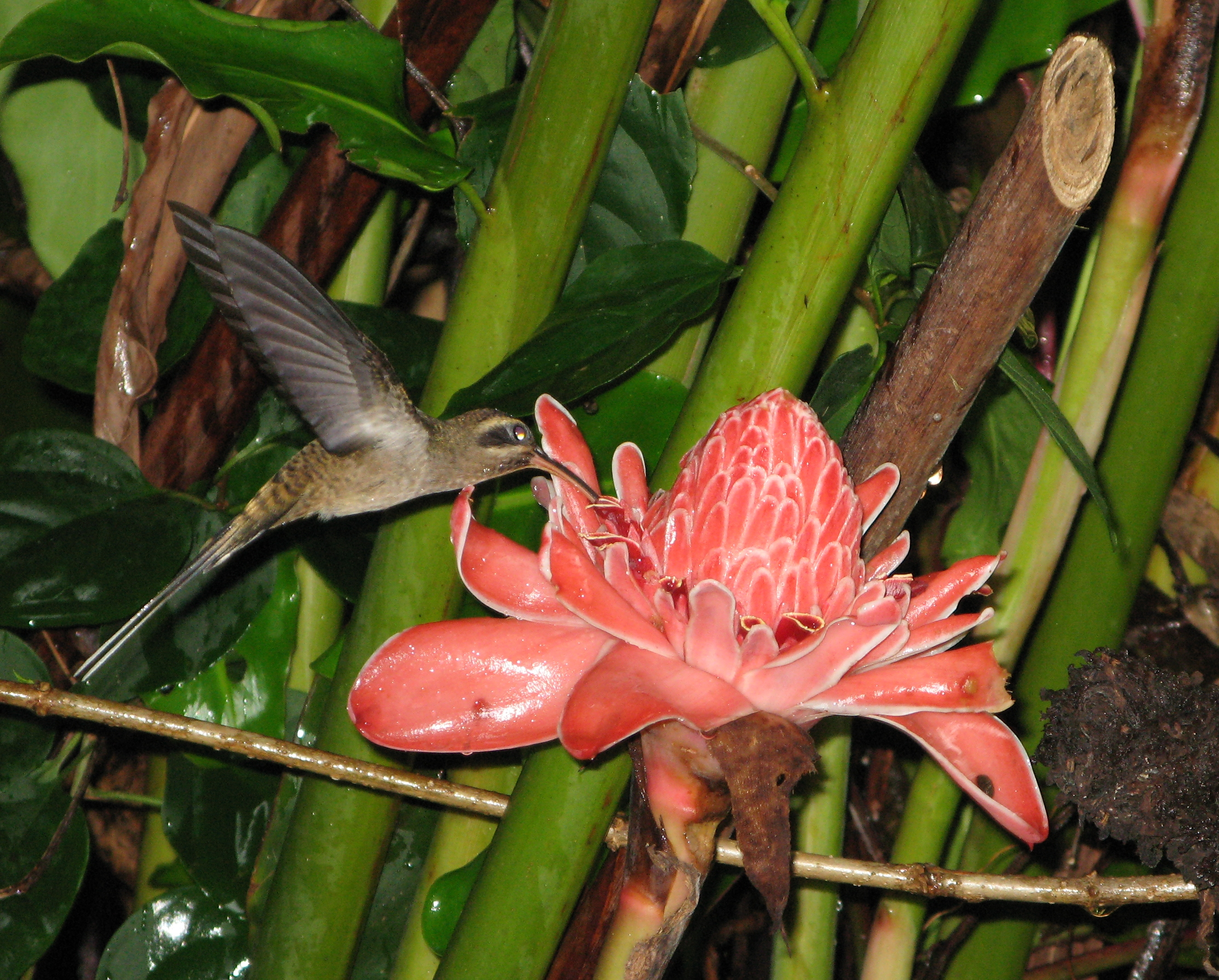 Phaethornis longirostris, Drake Bay, Costa Rica. Formerly considered conspecific with Phaethornis superciliosus. Nectar feeding on Etlingera. This bird was very camera shy. If the camera was turned off it would stop for up to a minute to drink from this flower and the one next to it, but as soon as the camera was turned on it would disappear. The flower was about 3' from the chair outside our room.